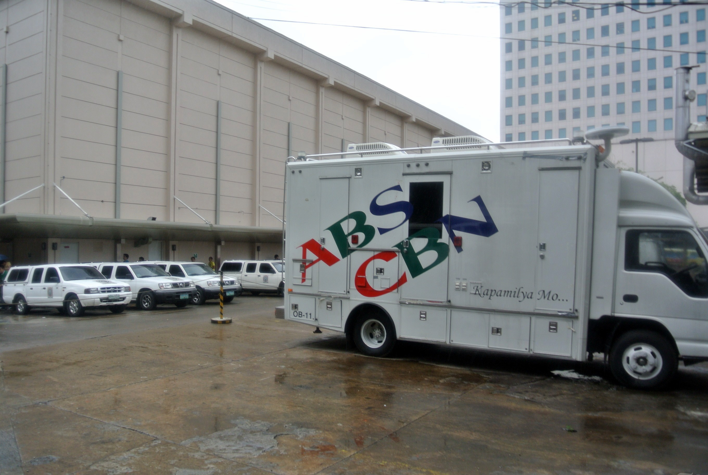 Inside the ABS-CBN Broadcasting Centre in 2012.